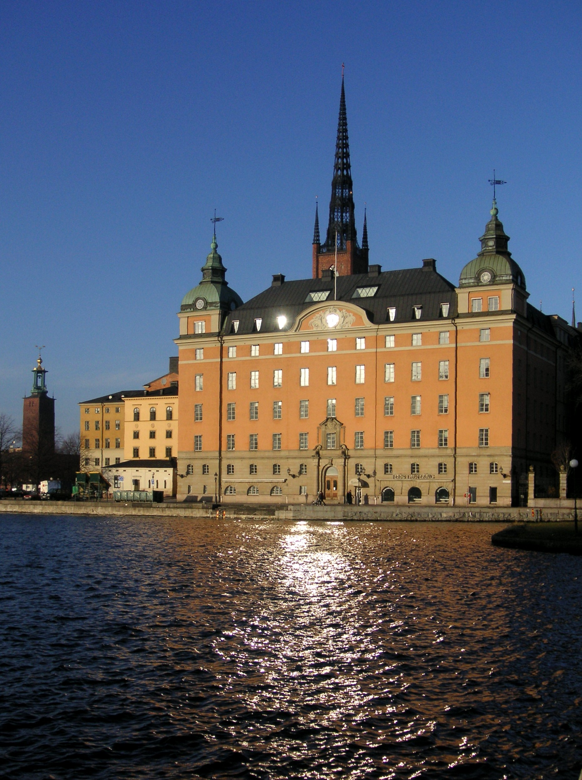 Gamla riksdagshuset in Stockholm. Designed by Aron Johansson in the National Romantic style.